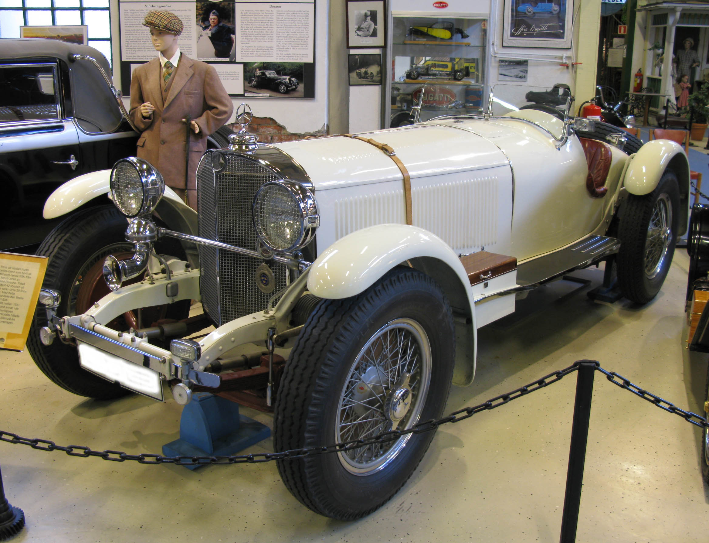 1929 Mercedes-Benz SSK. Raced by finnish Grand Prix driver Kalle Ebb in the 1930s.Location: Bil & Teknikhistoriska Samlingarna i Köping